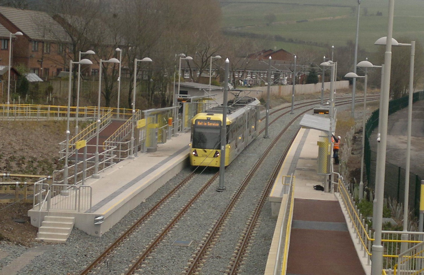 Newhey Metrolink station, a stop on Greater Manchester light rail Metrolink network.